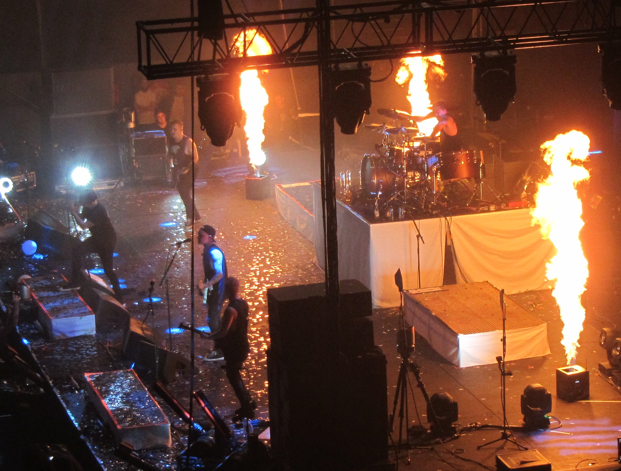 A photograph of The Amity Affliction during their encore on their co-headline with A Day To Remember on tour in Sydney on December 2015.